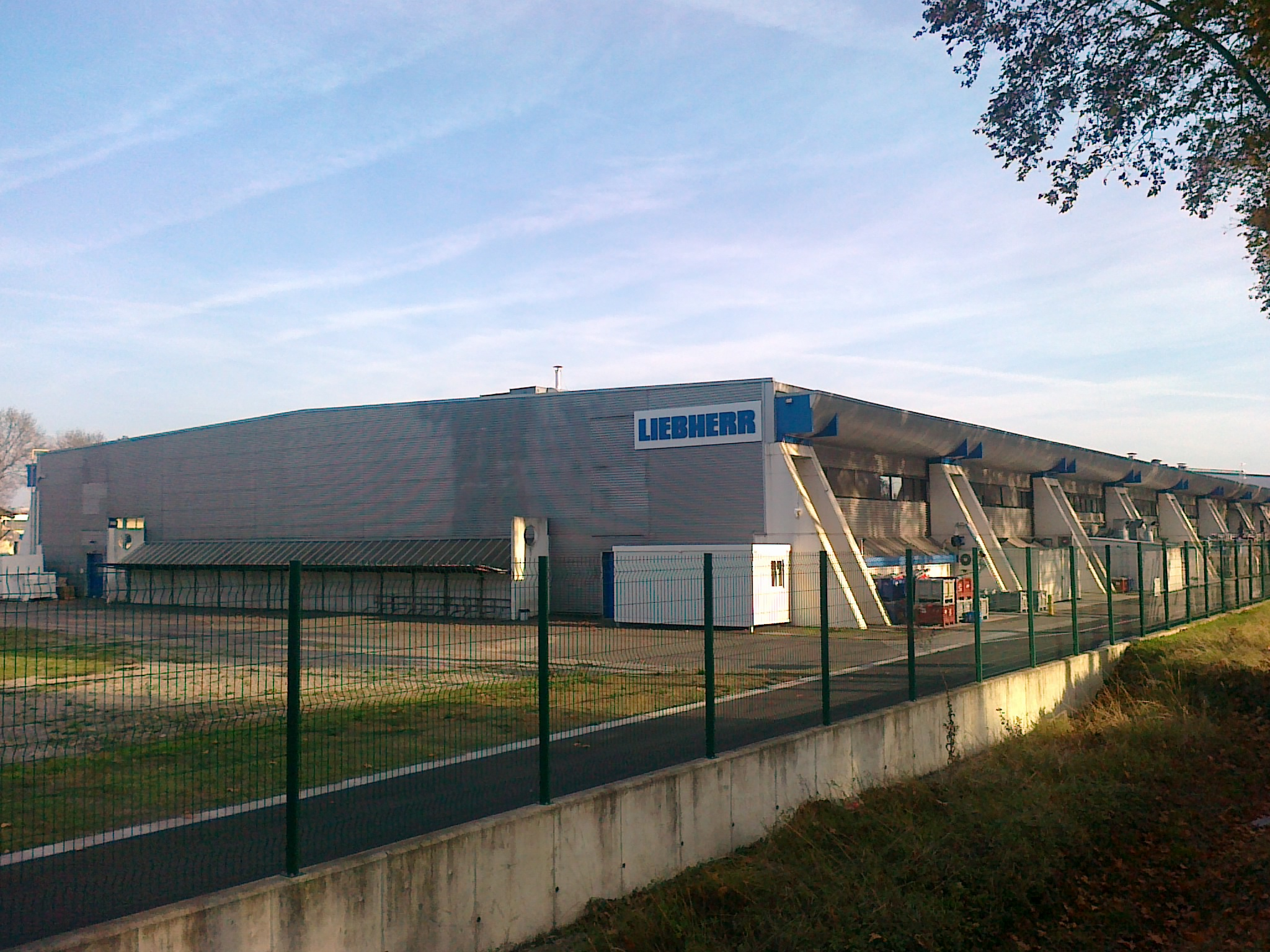 Factory Liebherr Aerospace Toulouse